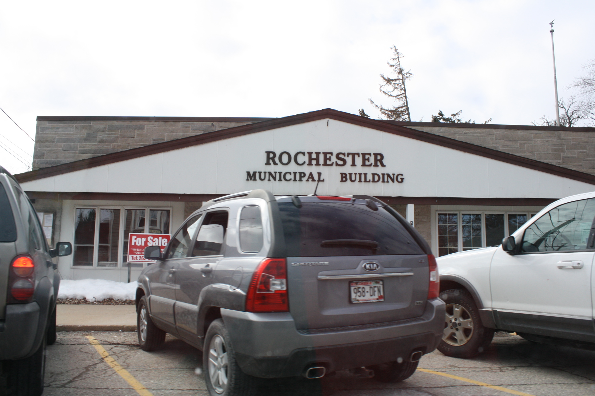 The municipal building in downtown Rochester, Wisconsin.